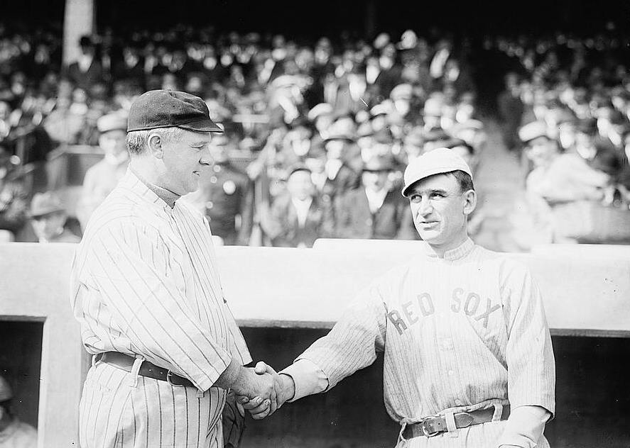 Bain News Service,, publisher. [Managers John McGraw, New York NL, and Jake Stahl, Boston AL, at World Series (baseball)] [1912] 1 negative : glass ; 5 x 7 in. or smaller. Notes: Original data provided by the Bain News Service on the negatives or caption cards: McGraw, Giants & Stahl, Red Sox - shaking hands. Corrected title and date based on research by the Pictorial History Committee, Society for American Baseball Research, 2006. Forms part of: George Grantham Bain Collection (Library of Congress). Format: Glass negatives. Repository: Library of Congress, Prints and Photographs Division, Washington, D.C. 20540 USA, General information about the Bain Collection is available at Persistent URL: Call Number: LC-B2- 2515-8